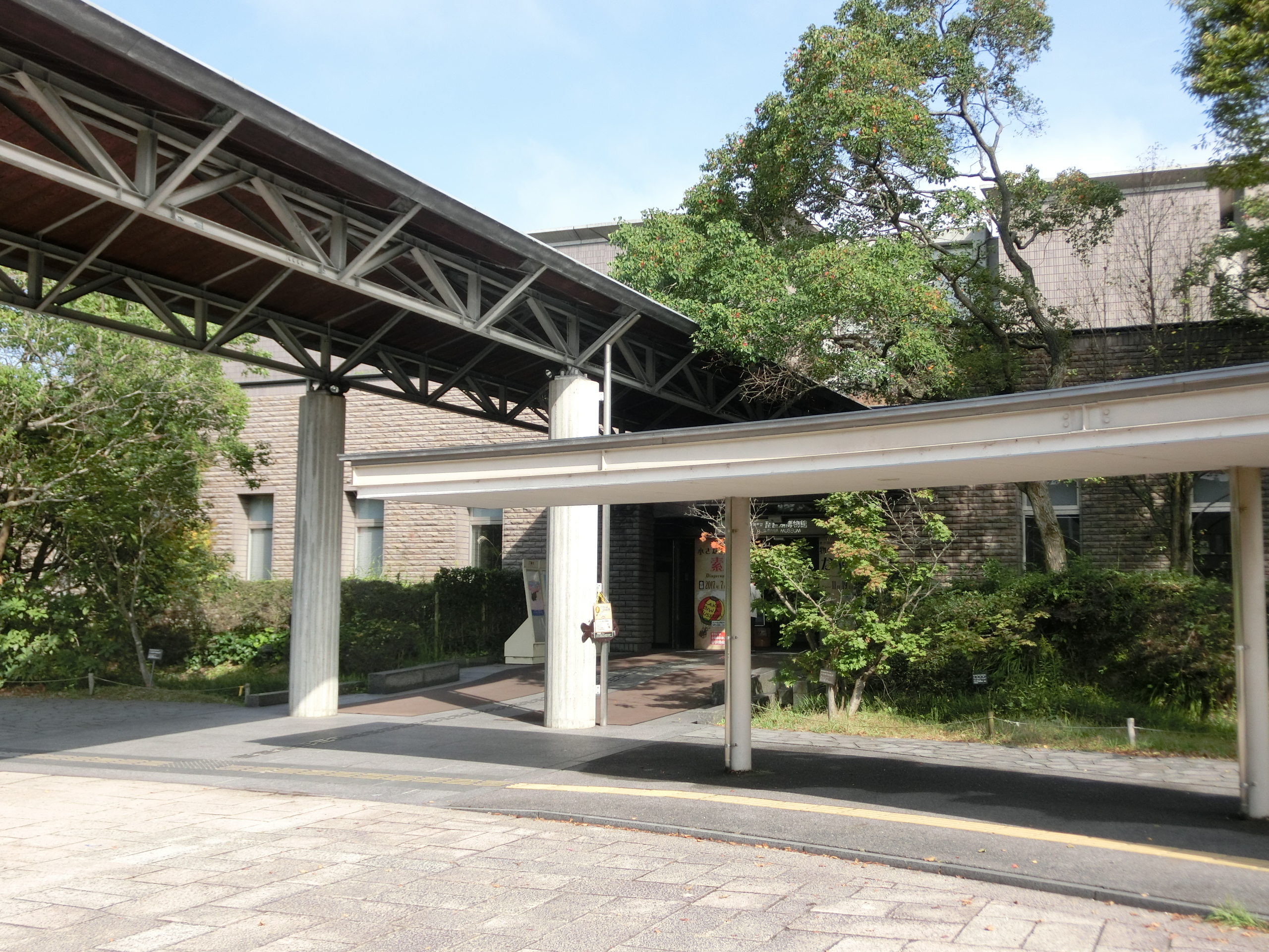 Lake Biwa Museum